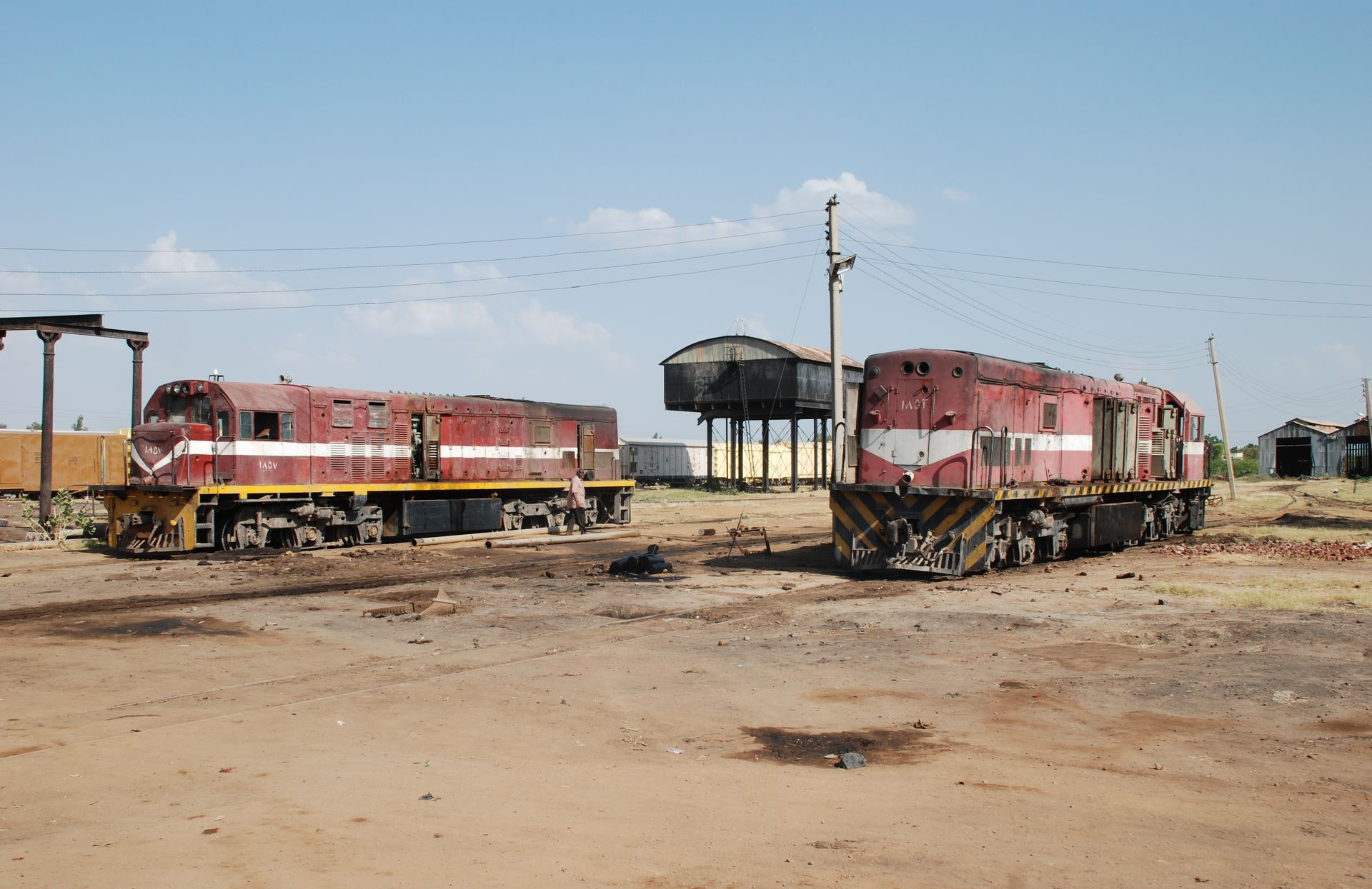 Kosti, Sudan. Railway station. Locomotives #1857 and #1852